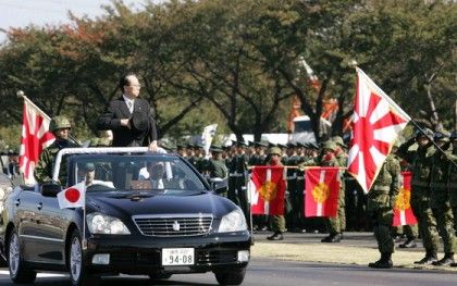 Yasuo Fukuda, Prime Minister, reviewed the Parade of Self-Defense Force at the Camp Asaka, Ground Self-Defense Force in Nerima Ward, Tōkyō Metropolis on October 28, 2007.